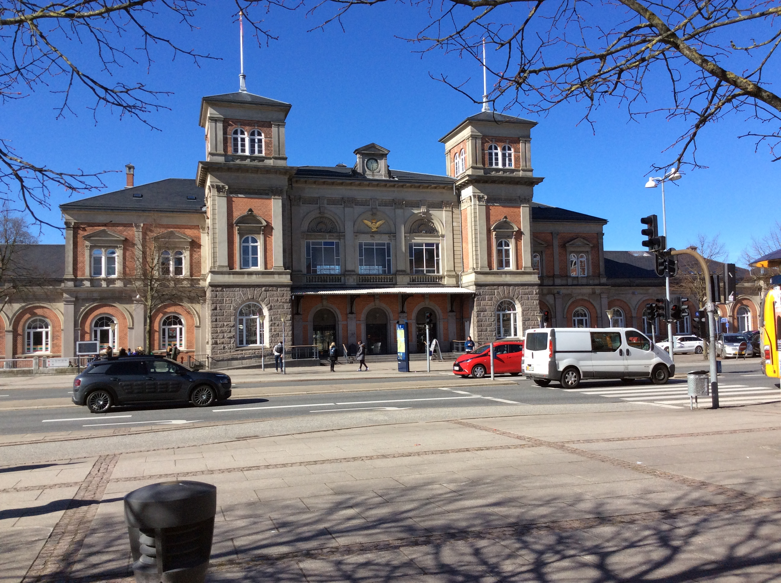 Aalborg train station from the outside view